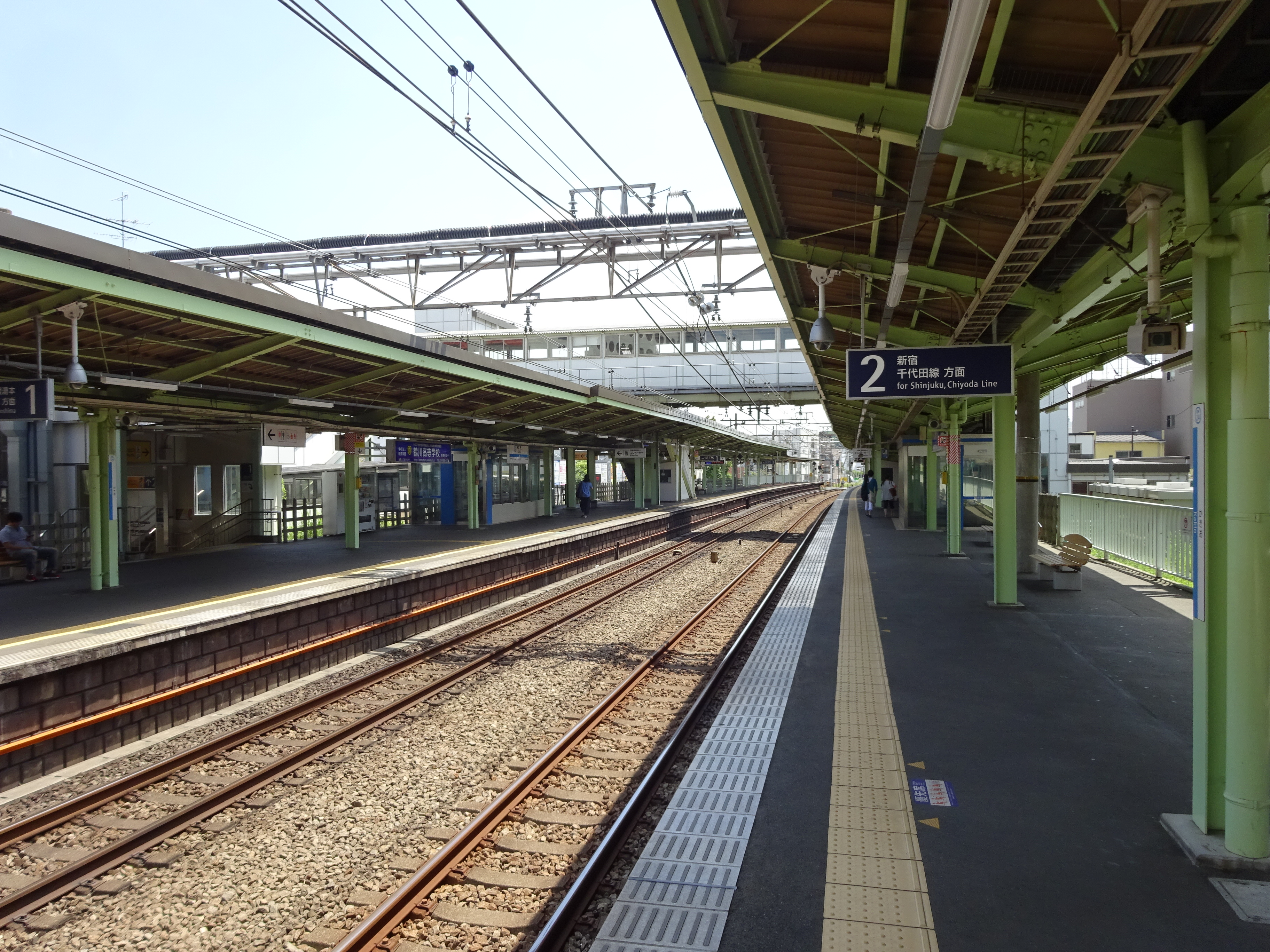 Platforms of Kakio Station